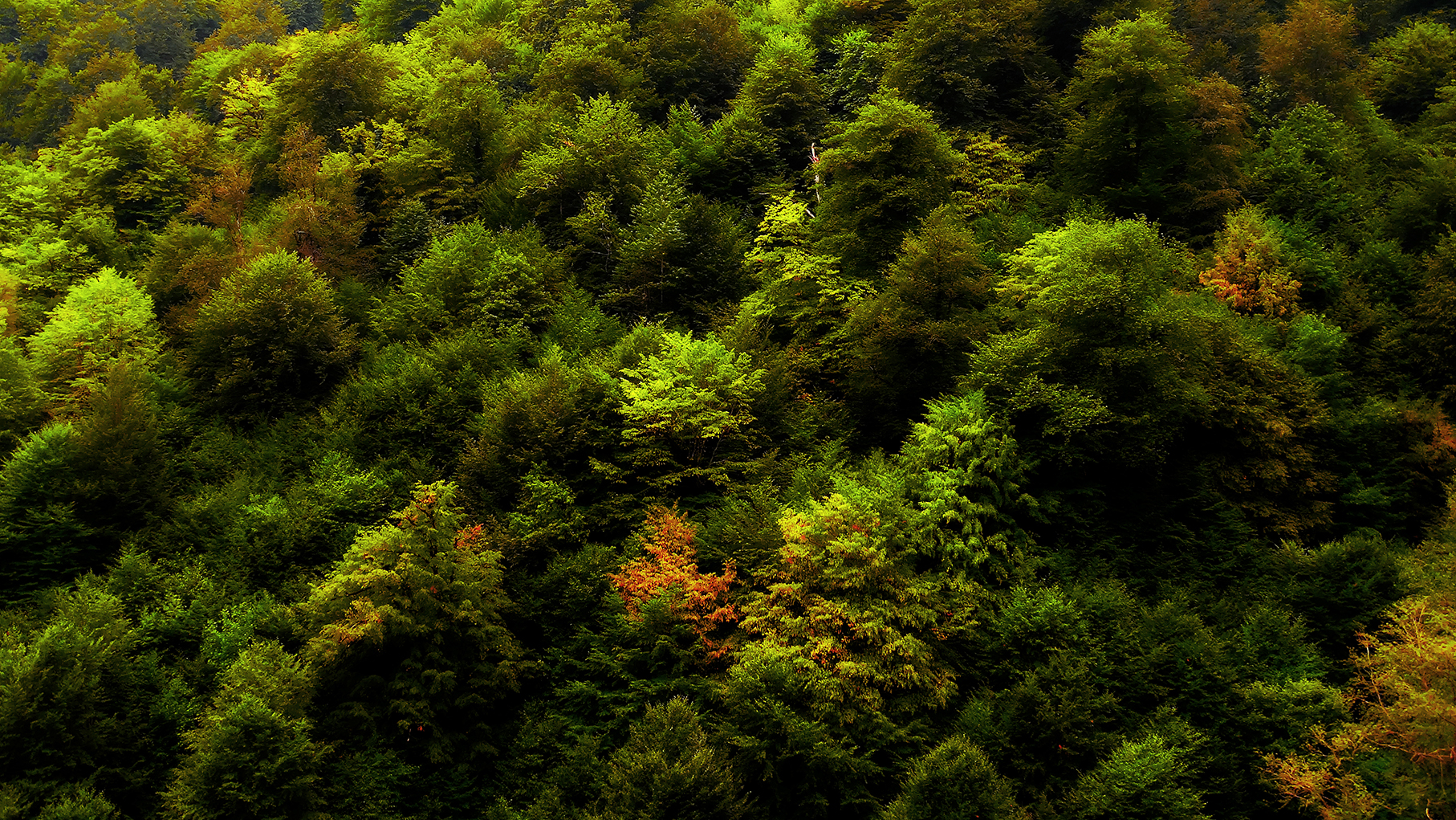 Nature of Gabala rayon, Azerbaijan